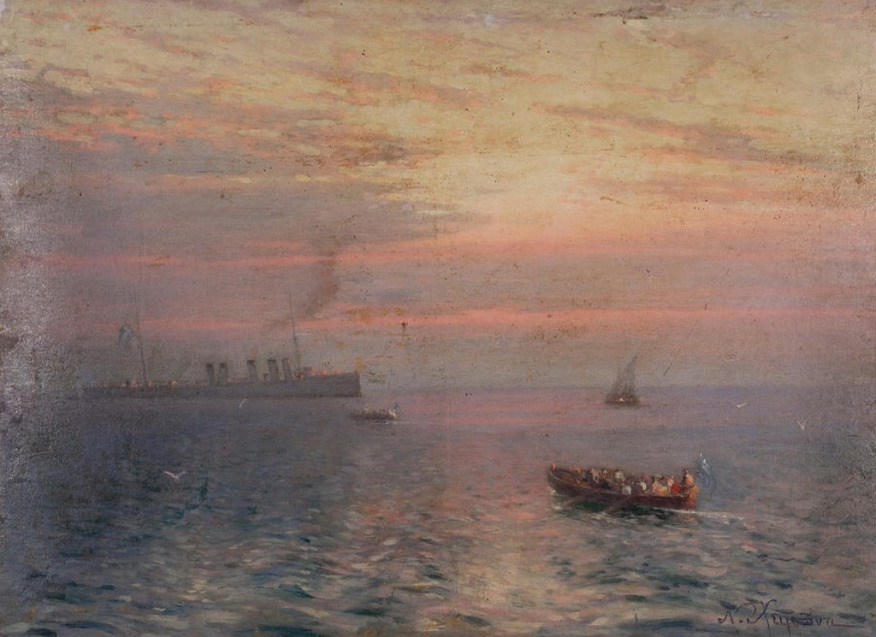 Russian and Greek painter Nikolaos Himonas (1866-1929):Greek torpedo-boat Leon